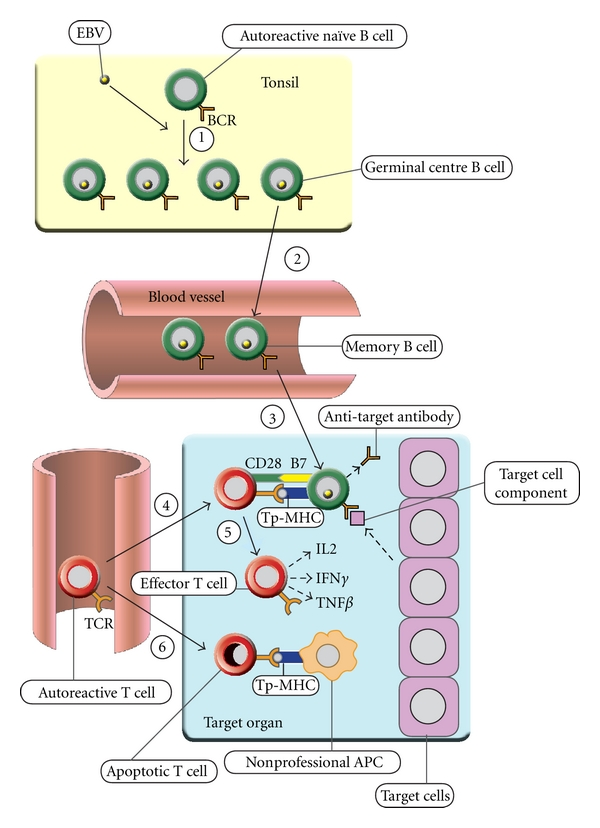 During primary infection EBV infects autoreactive naïve B cells in the tonsil, driving them to enter germinal centres where they proliferate and differentiate into latently infected autoreactive memory B cells (path 1) which then exit from the tonsil and circulate in the blood (path 2). The number of EBV-infected B cells is normally controlled by EBV-specific cytotoxic CD8+ T cells, which kill proliferating and lytically infected B cells, but not if there is a defect in this defence mechanism. Surviving EBV-infected autoreactive memory B cells enter the target organ where they take up residence and produce oligoclonal IgG and pathogenic autoantibodies which attack components of the target organ (path 3). Autoreactive T cells that have been activated in peripheral lymphoid organs by cross-reacting foreign antigens circulate in the blood and enter the target organ where they are reactivated by EBV-infected autoreactive B cells presenting target organ peptides (Tp) bound to major histocompatibility complex (MHC) molecules (path 4). These EBV-infected B cells provide costimulatory survival signals (B7) to the CD28 receptor on the autoreactive T cells and thereby inhibit the activation-induced T-cell apoptosis which normally occurs when autoreactive T cells enter the target organ and interact with nonprofessional antigen-presenting cells (APCs) which do not express B7 costimulatory molecules (Path 6). After the autoreactive T cells have been reactivated by EBV-infected autoreactive B cells, they produce cytokines such as interleukin-2 (IL2), interferon-γ (IFNγ) and tumour necrosis factor-β (TNFβ) and orchestrate an autoimmune attack on the target organ (Path 5). BCR, B cell receptor; TCR, T cell receptor.